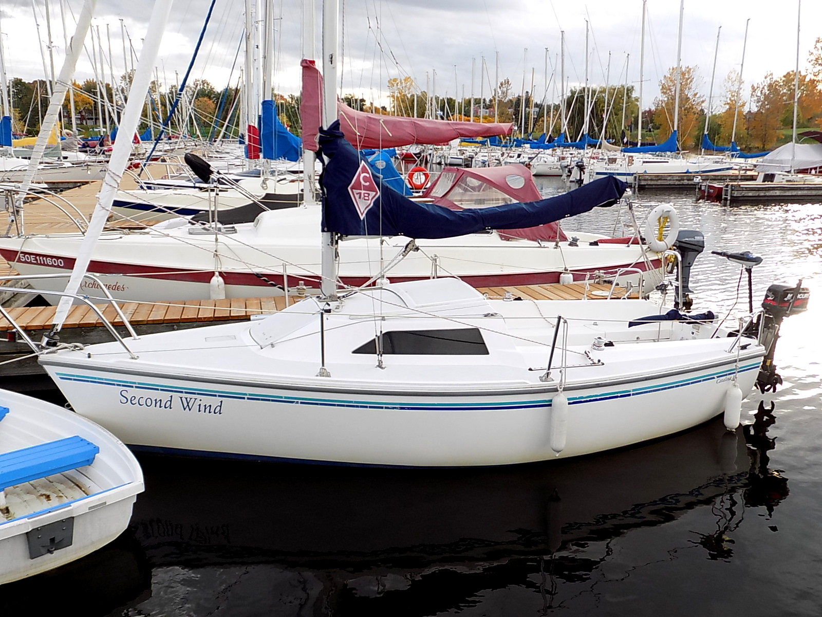 A Catalina 18 sailboat named Second Wind.